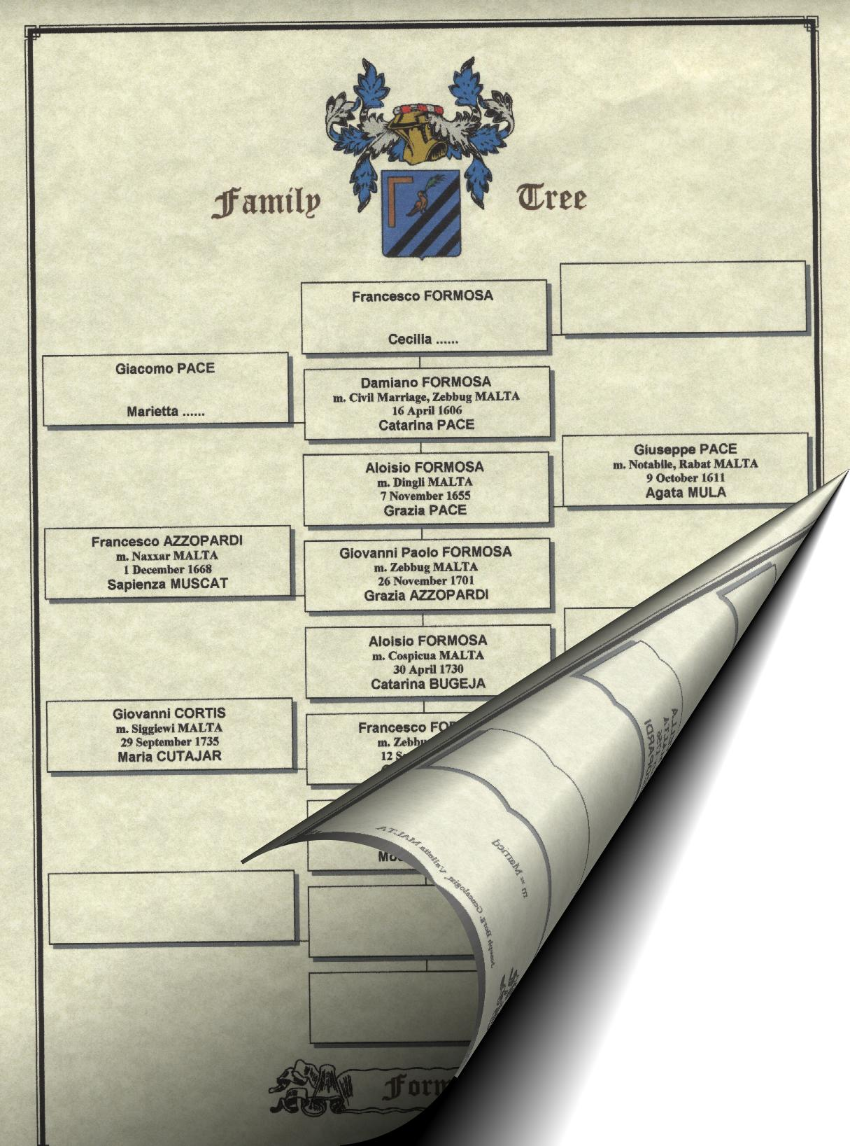 genealogical chart, family tree